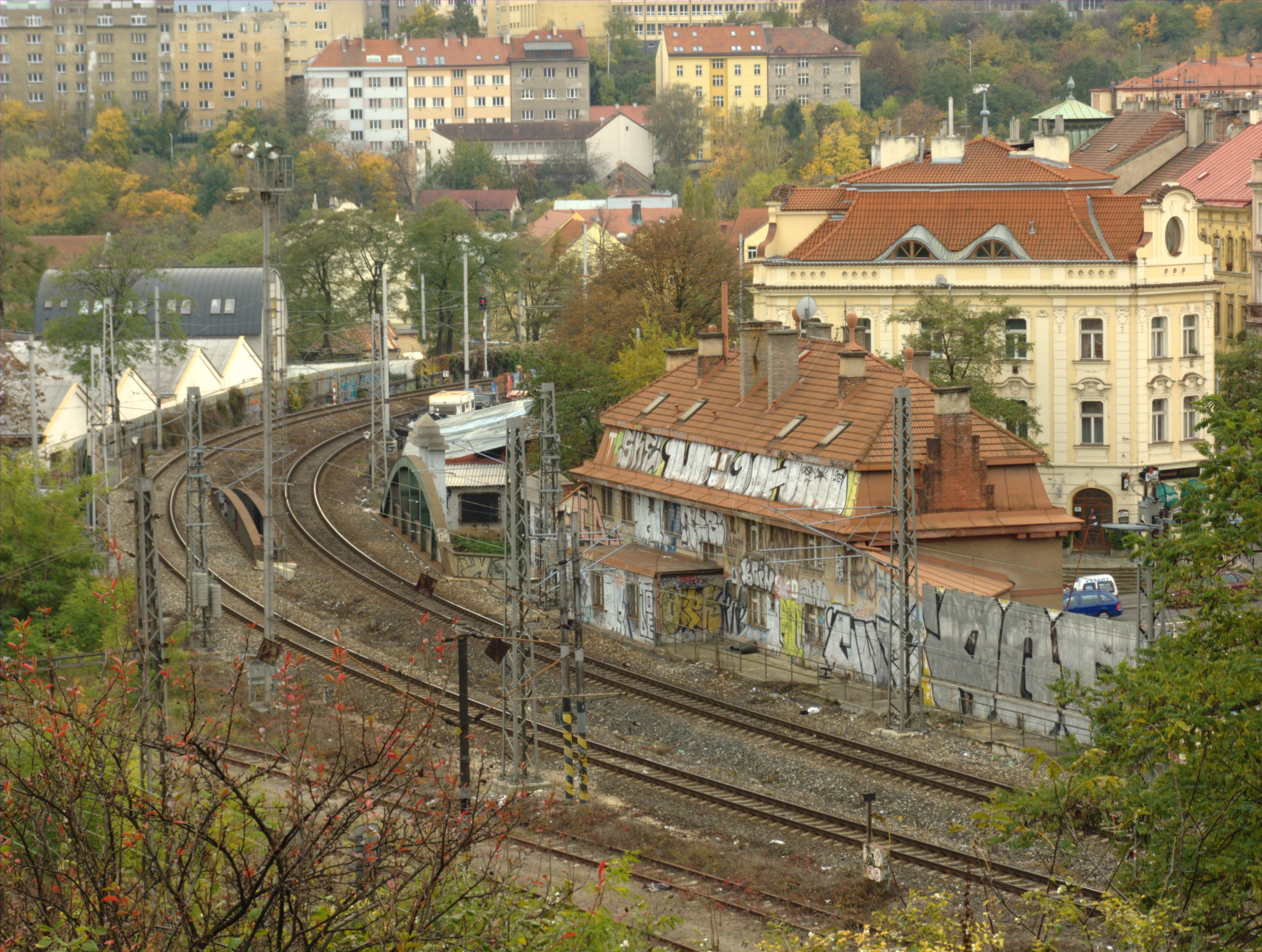 A railroad track connecting Vinohradské tunely tunnels with Vyšehrad and Smíchov, Prague, CZ